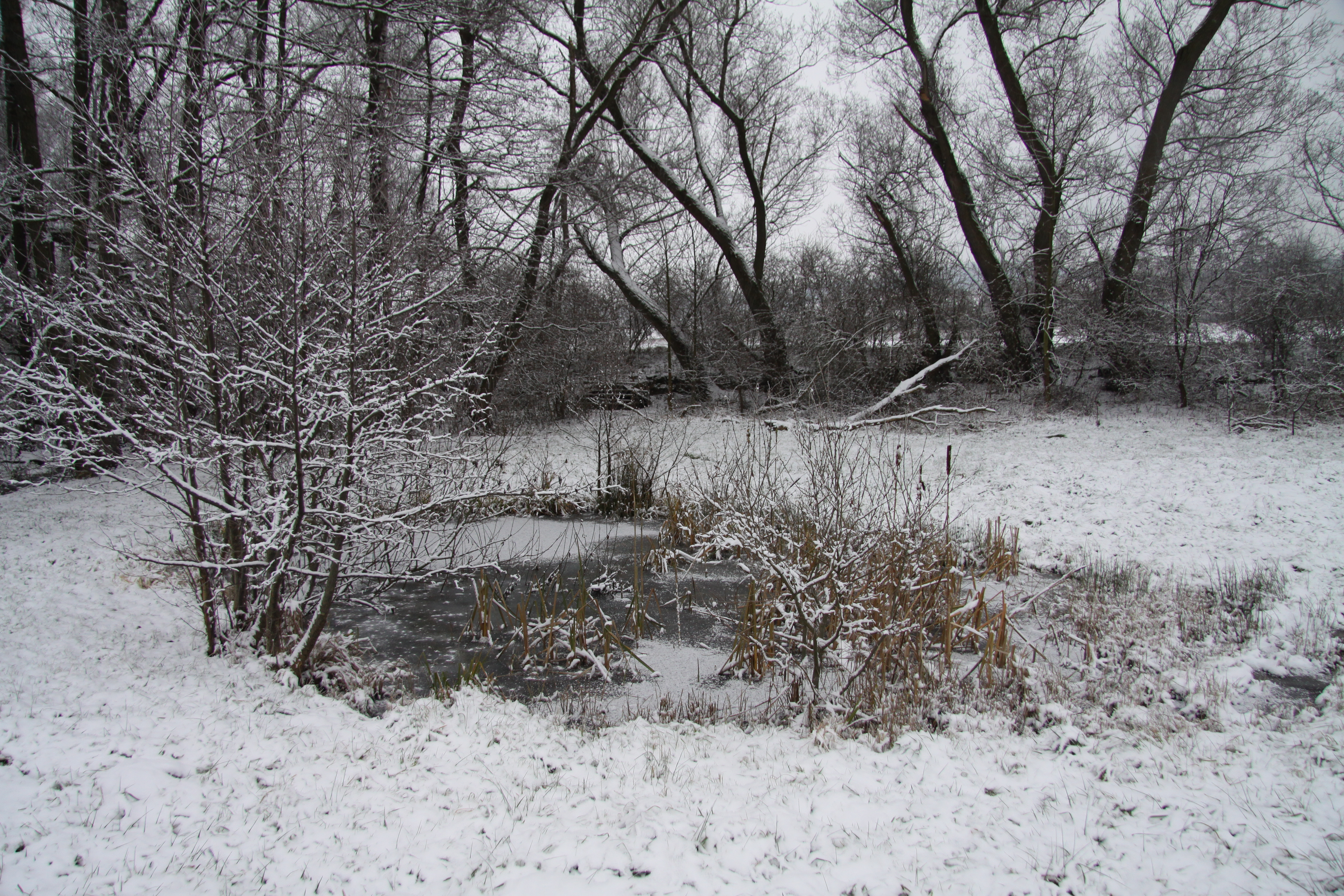 Natural monument Tůně u Hájské near Hájské village, Strakonice District, Czech Republic